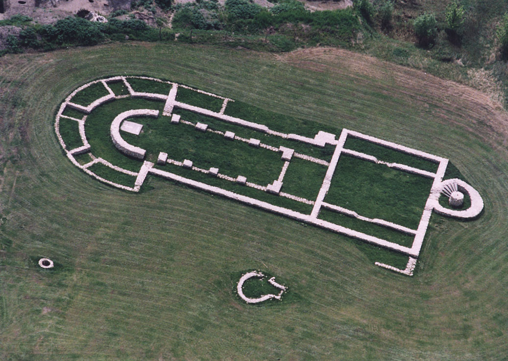 Remains of the Romanesque basilica in Zalavár - Hungary - Europe